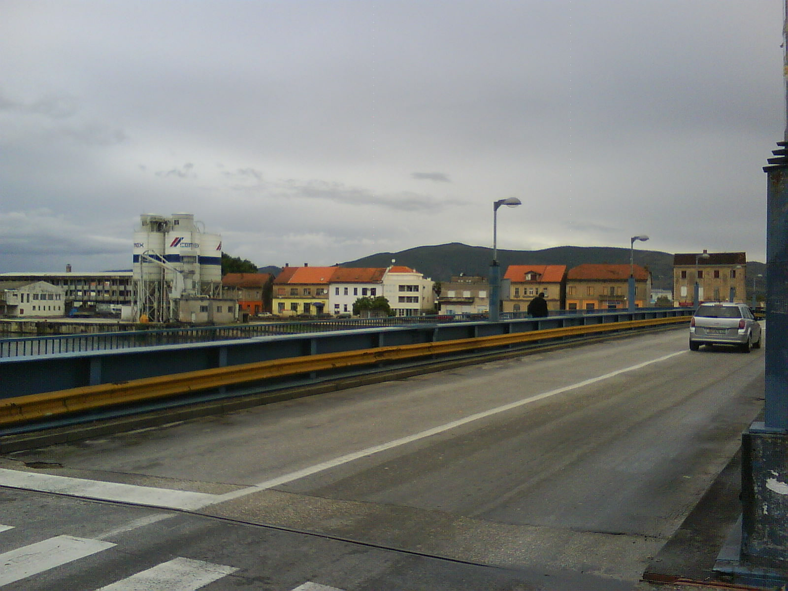 Port bridge over river Neretva in Metković